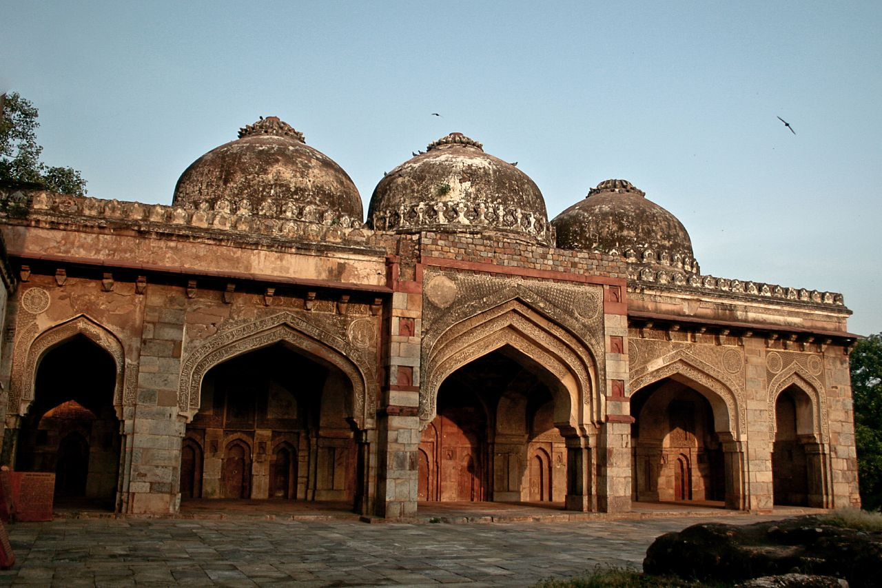 Bada Gumbad, a three domed masjid (mosque), Lodhi Gardens, Delhi.